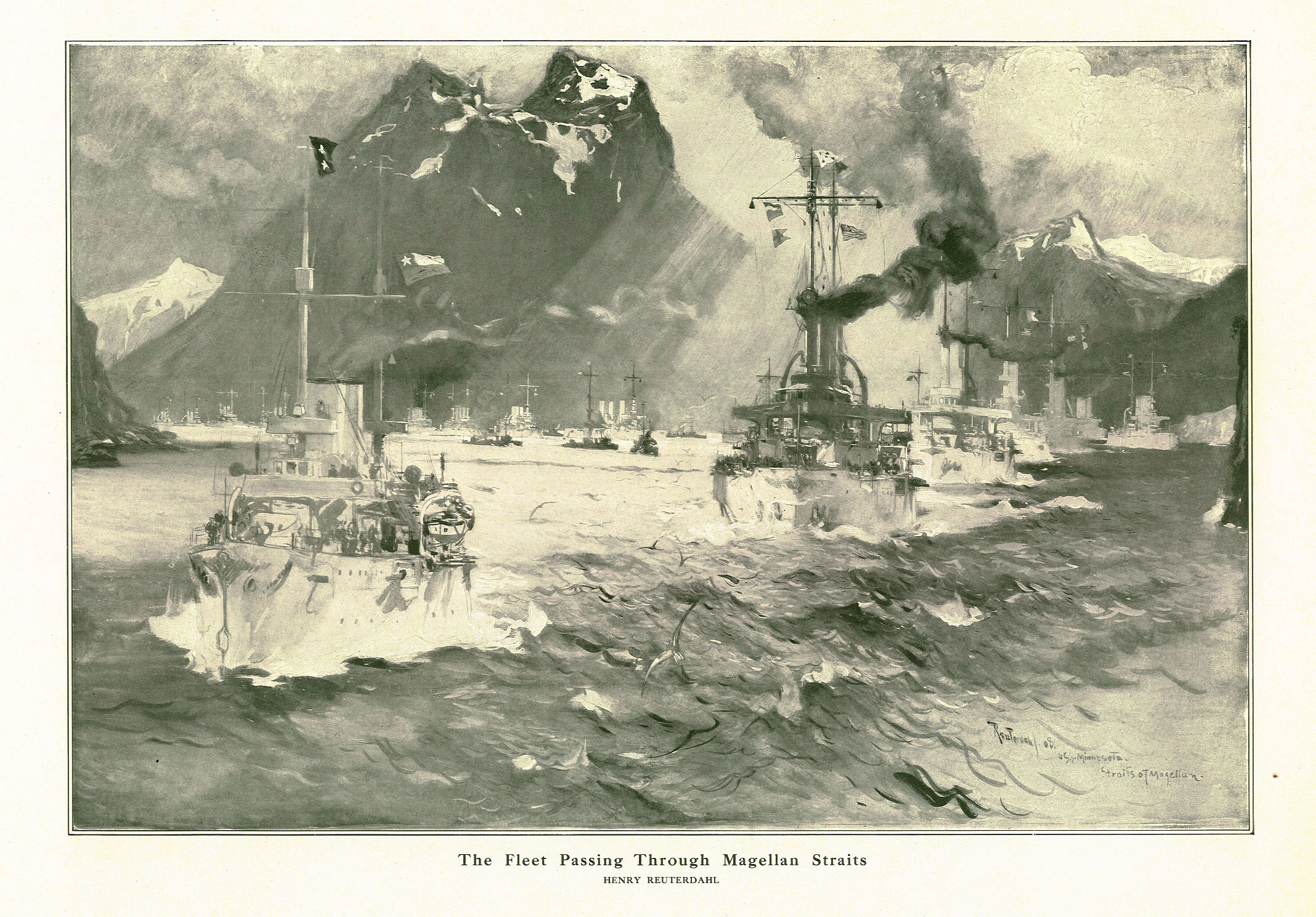 The Fleet Passing Through Magellan StraitsHalftone reproduction of a painting by Henry Reuterdahl, depicting the U.S. Atlantic Fleet steaming through the Straits of Magellan in February 1908. Copied during the 1930s from Theodore Roosevelt's autobiography. U.S. Naval History and Heritage Command Photograph. Photo #: NH 41657. Naval History and Heritage Command home page.